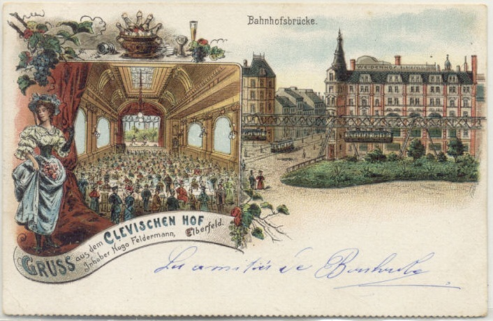 Picture postcard with lithgraphy showing Varieté Clevischer Hof and Hotel Weidenhof in Elberfeld, Germany